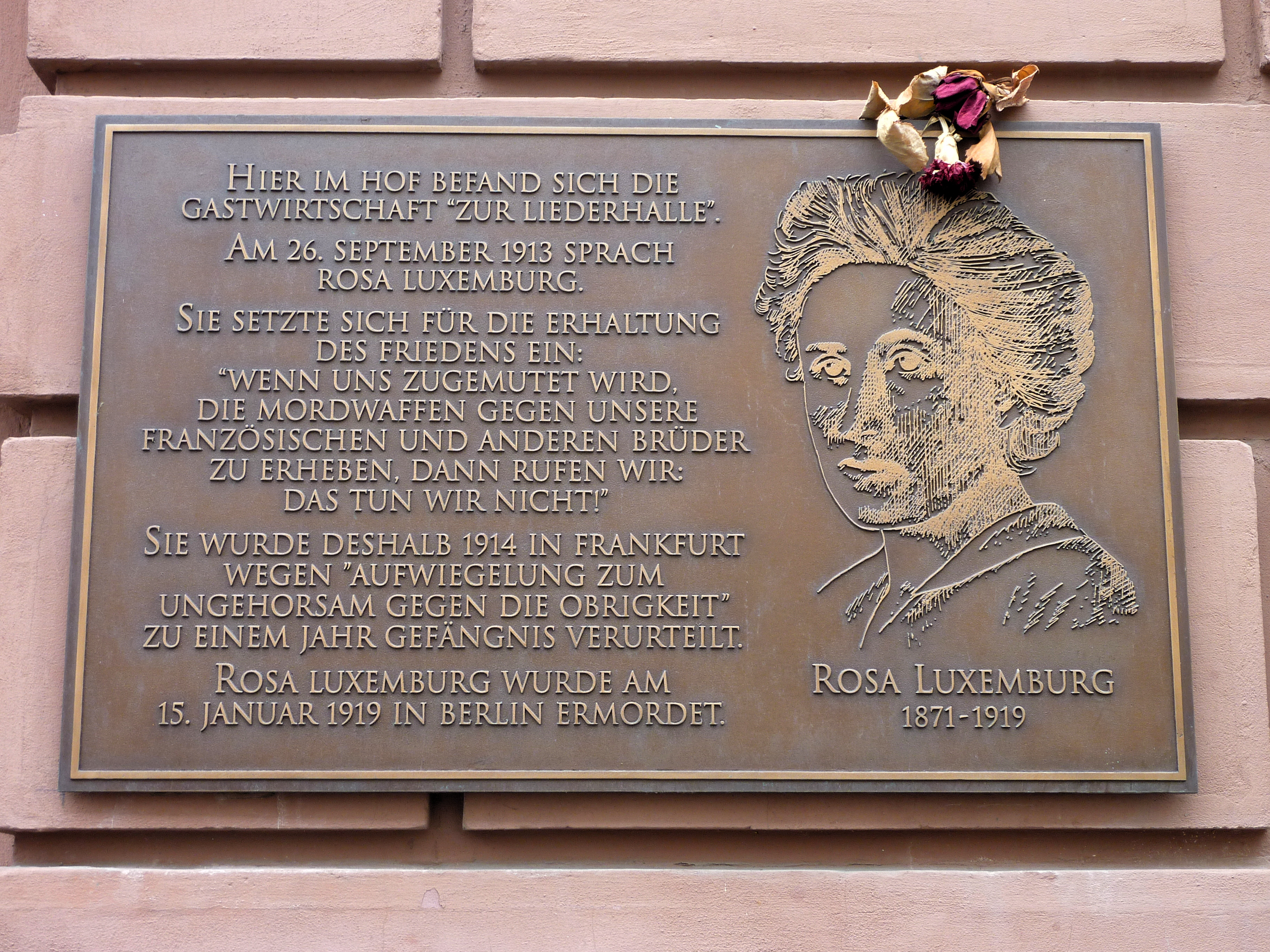 Frankfurt/M., Germany: Plaque commemorating Rosa Luxemburg